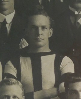 Photograph of Wally Haysom in 1919